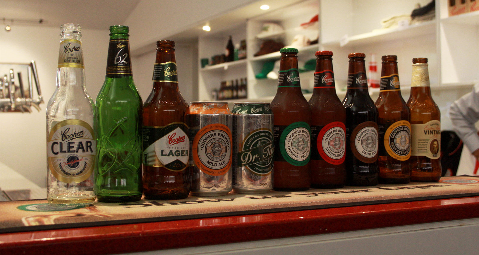 Selection of beers produce by the Coopers Brewery, Regency Park, South Australia: Clear, 62 Pilsner, Premium Lager, Mild Ale, Dr. Tim's Traditional Ale, Pale Ale, Sparkling Ale, Dark Ale, Best Extra Stout, Extra Strong Vintage Ale.